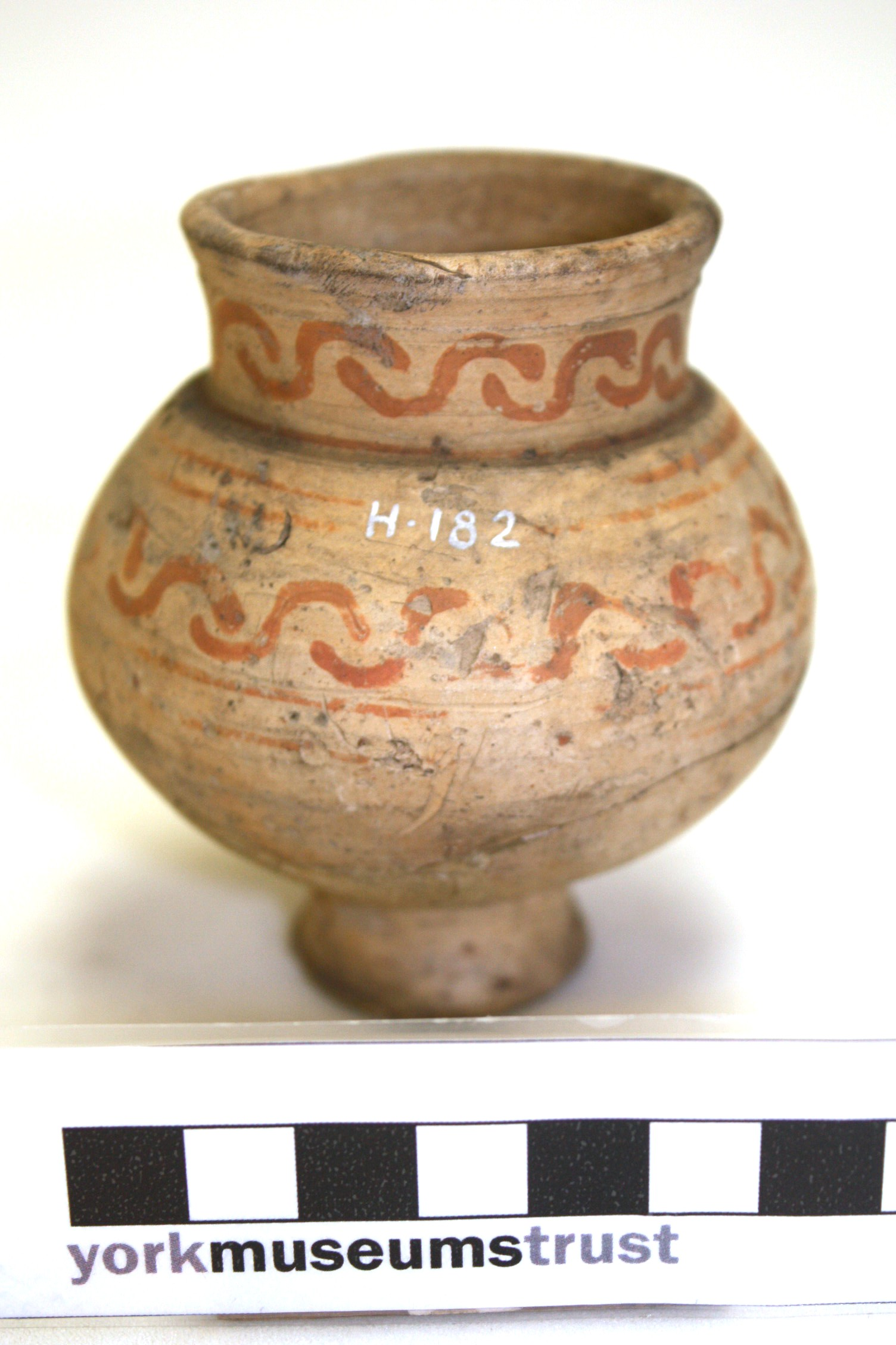 Pedestal beaker of Crambeck Parchment Ware, painted with wavy lines.